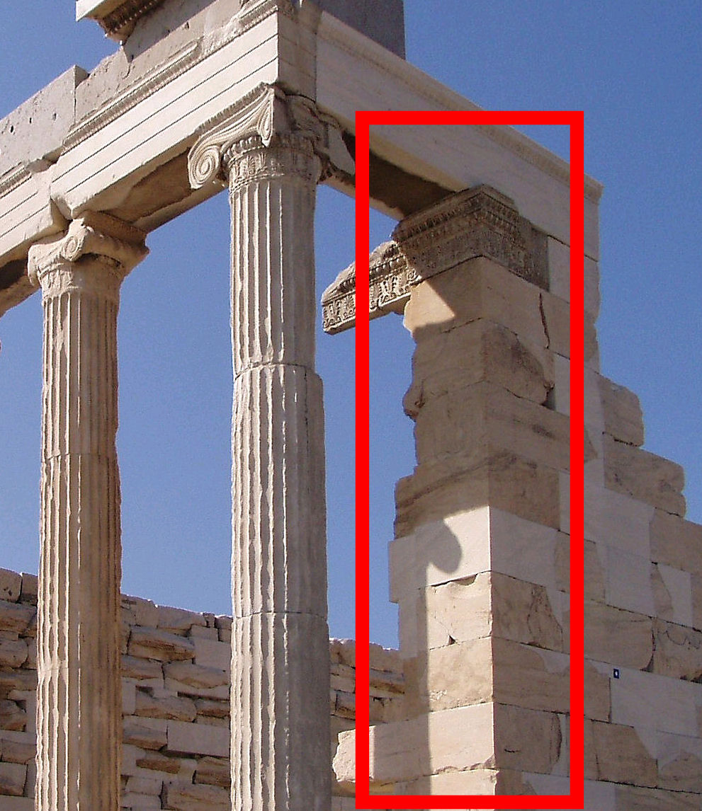 An Anta at the Erechteion, Athens